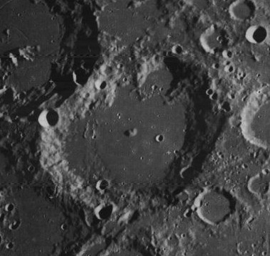 Oblique view of Röntgen crater, on the moon.